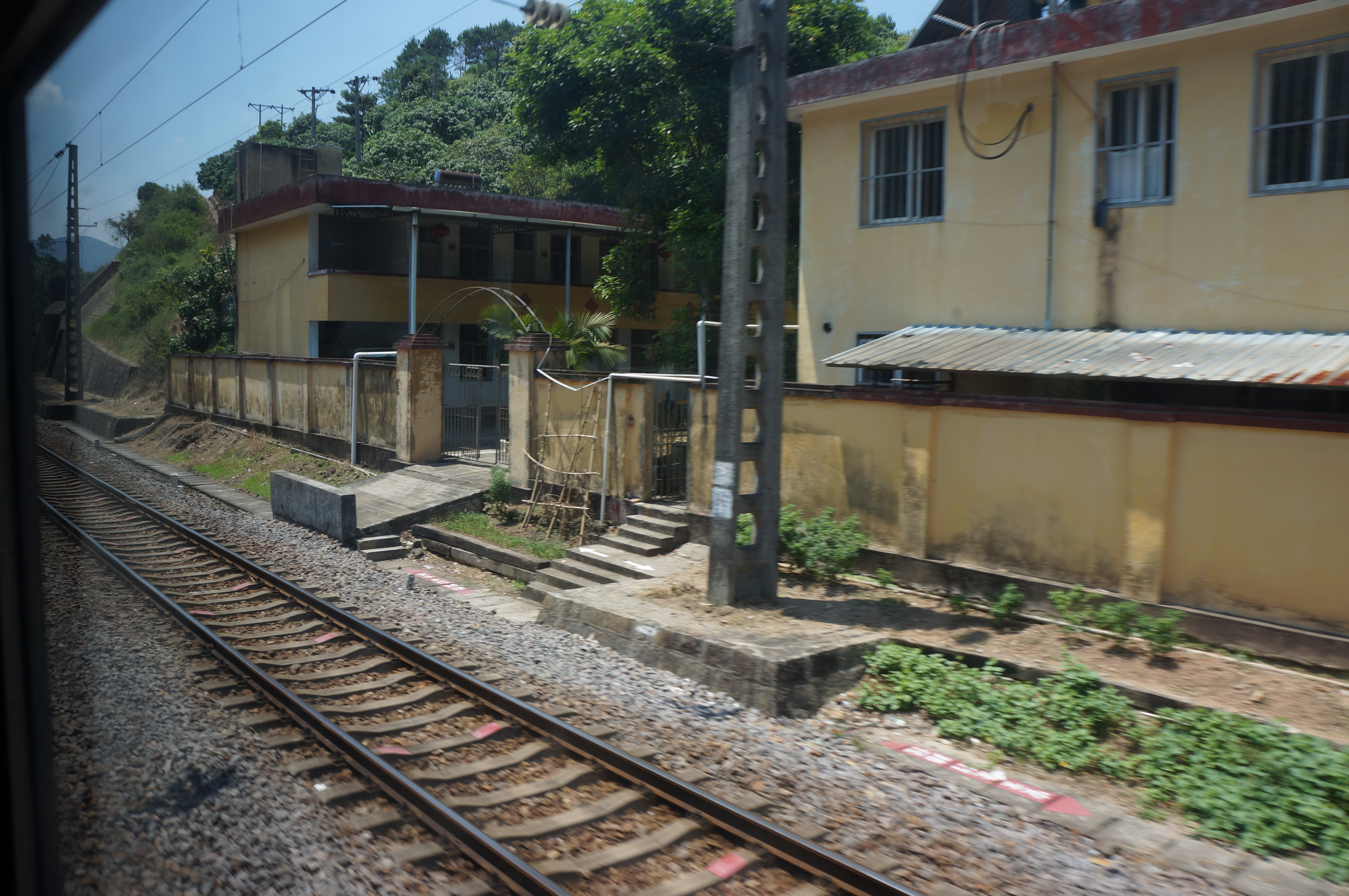 201708 Tracks at Shajian Station